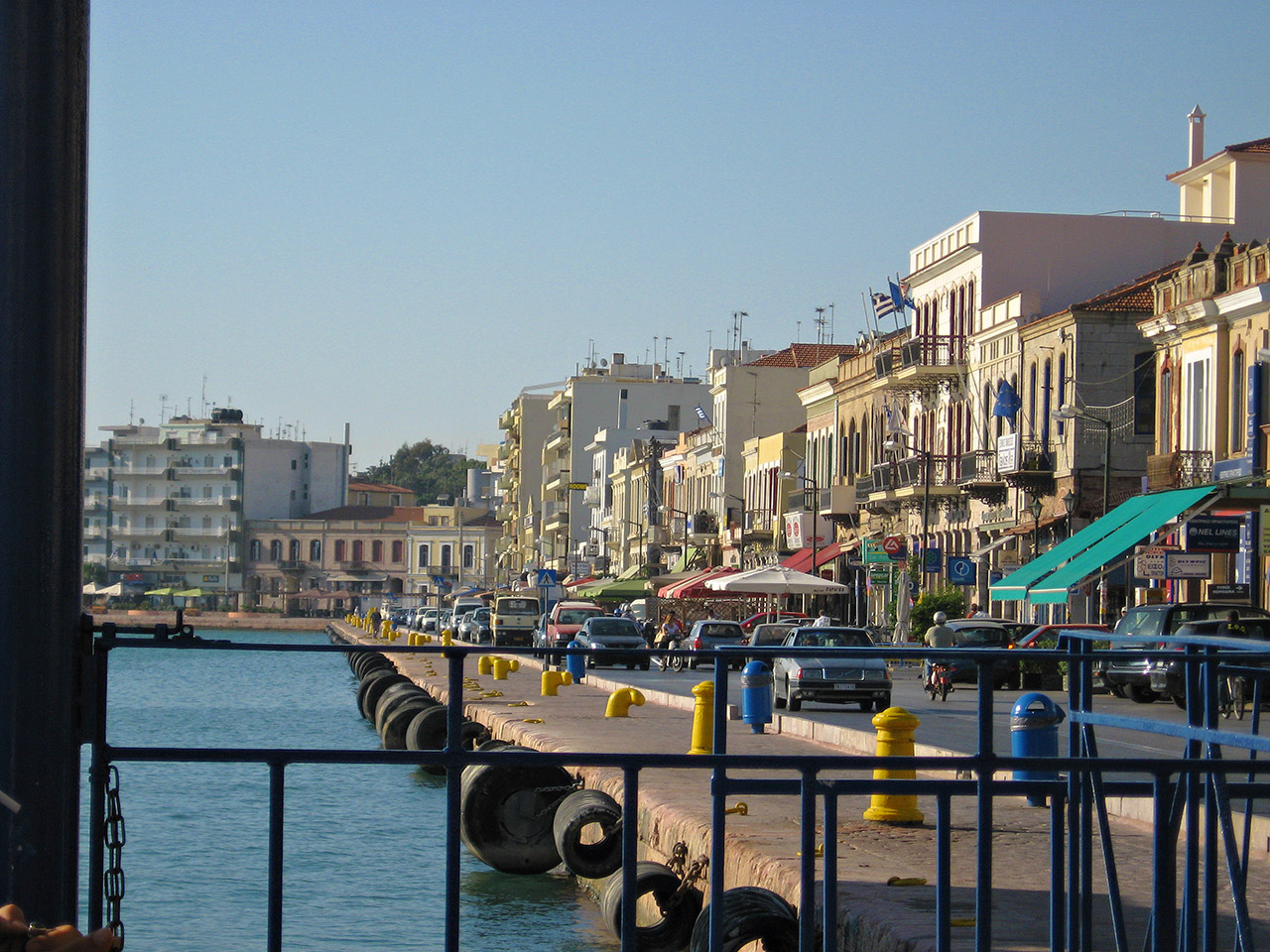 Port of Chios town